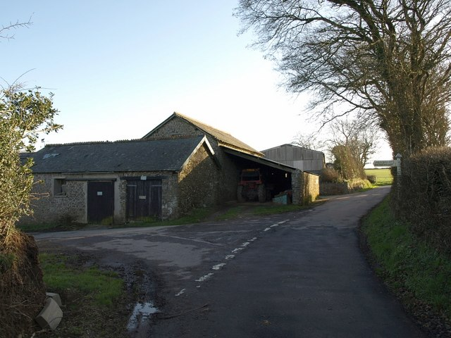 Luppincott Farm buildings at the lane junction. The signposted lane to the left is a lengthy cul-de-sac to two farms (Lashingcott and Nethercott).